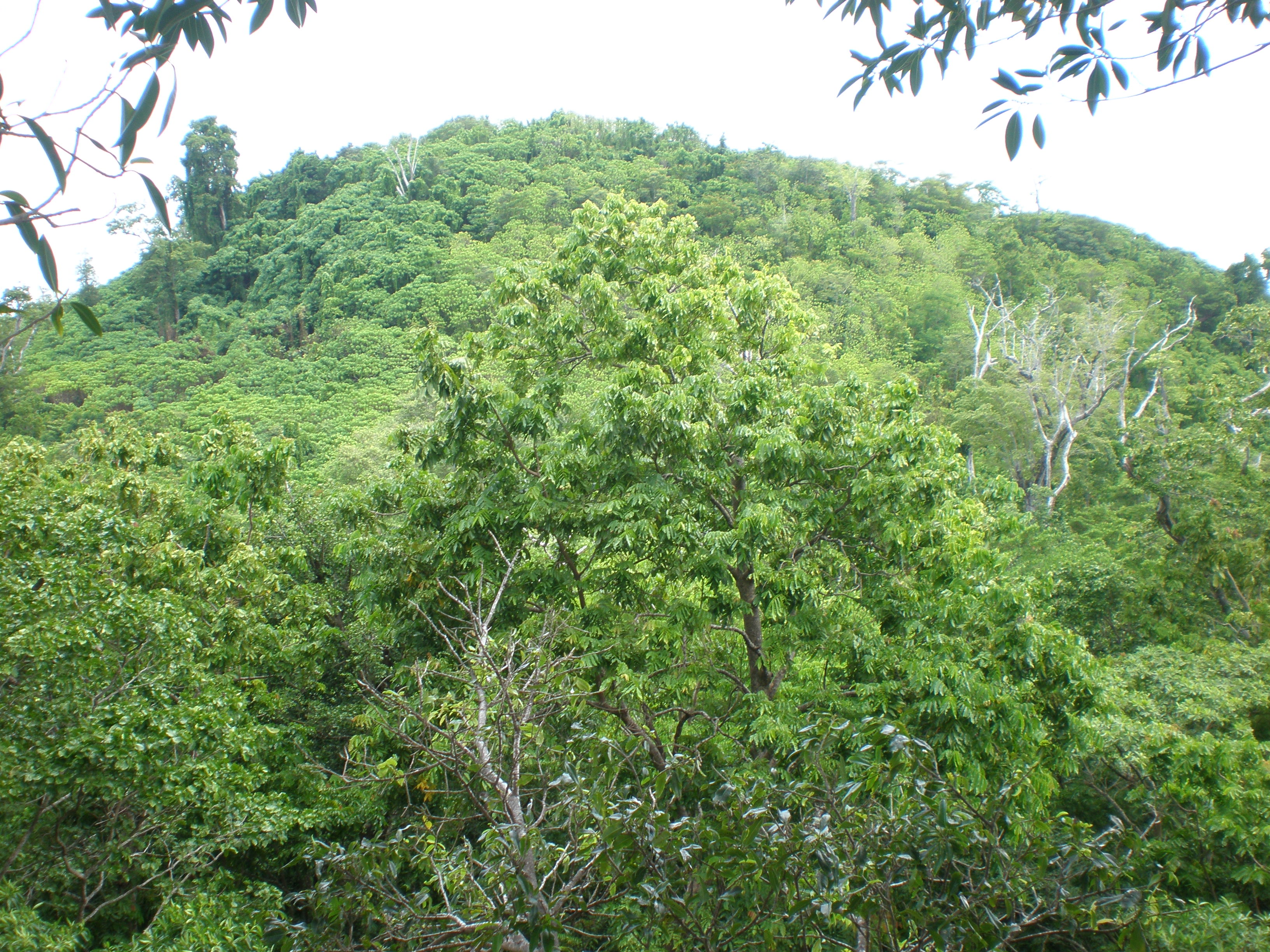 View low lying tropical rainforest, Falealupo, Savai'i island, Samoa.